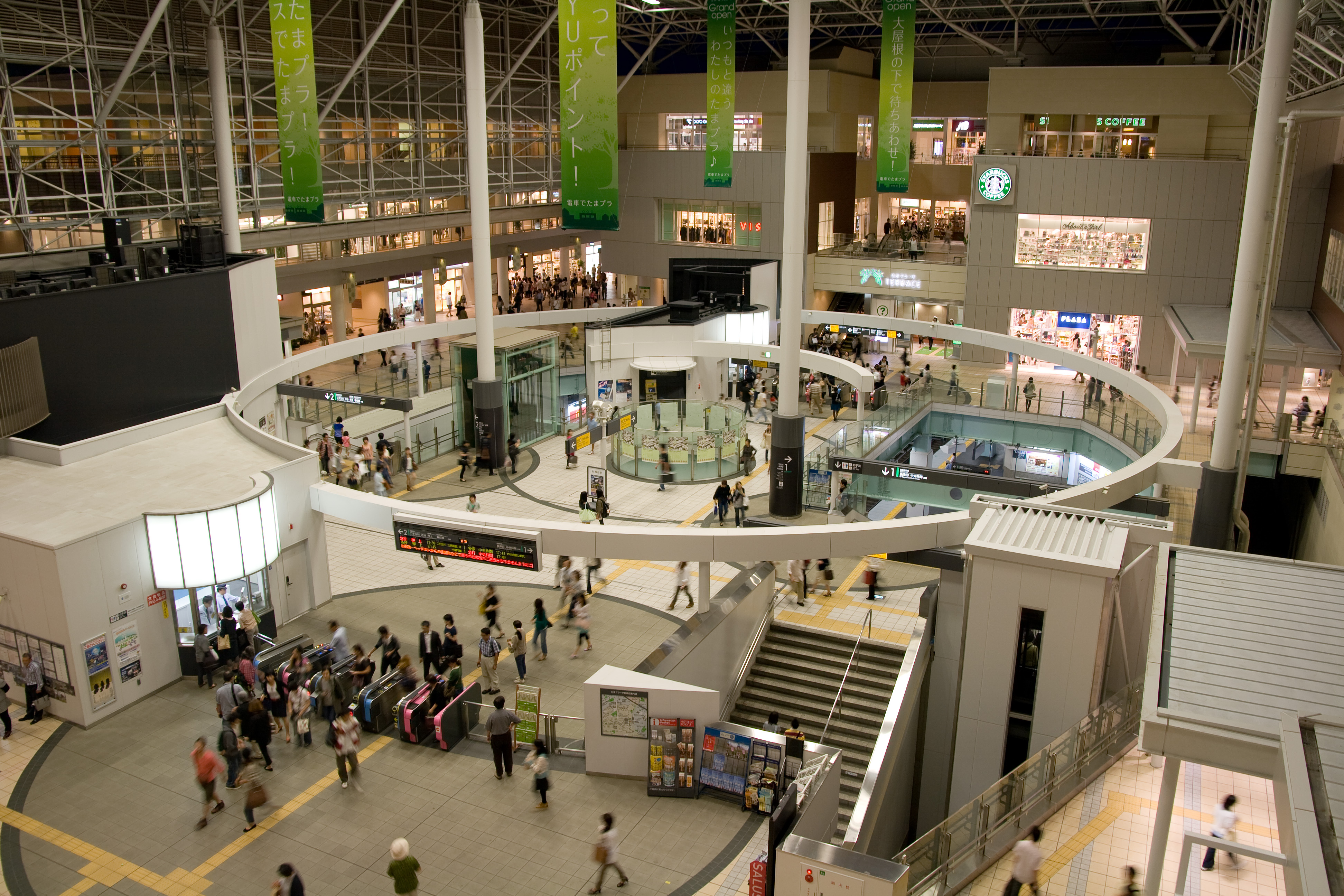 Tama-Plaza Station of the Den-en-toshi Line, Kanagawa Pref., Japan.